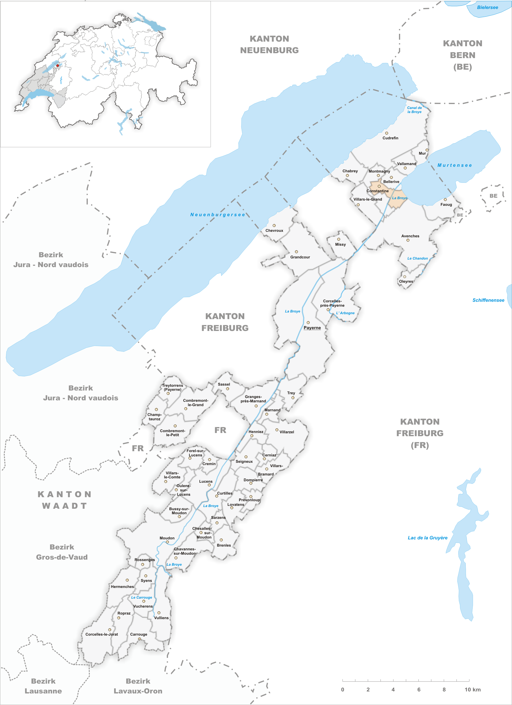 Municipality Constantine